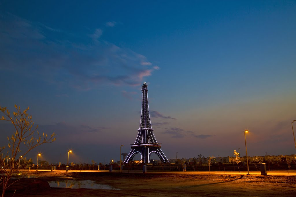 Evening view at Eiffel Tower Park at Bahria Town Lahore